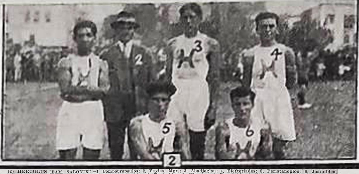 Basketball team of Iraklis in 1927